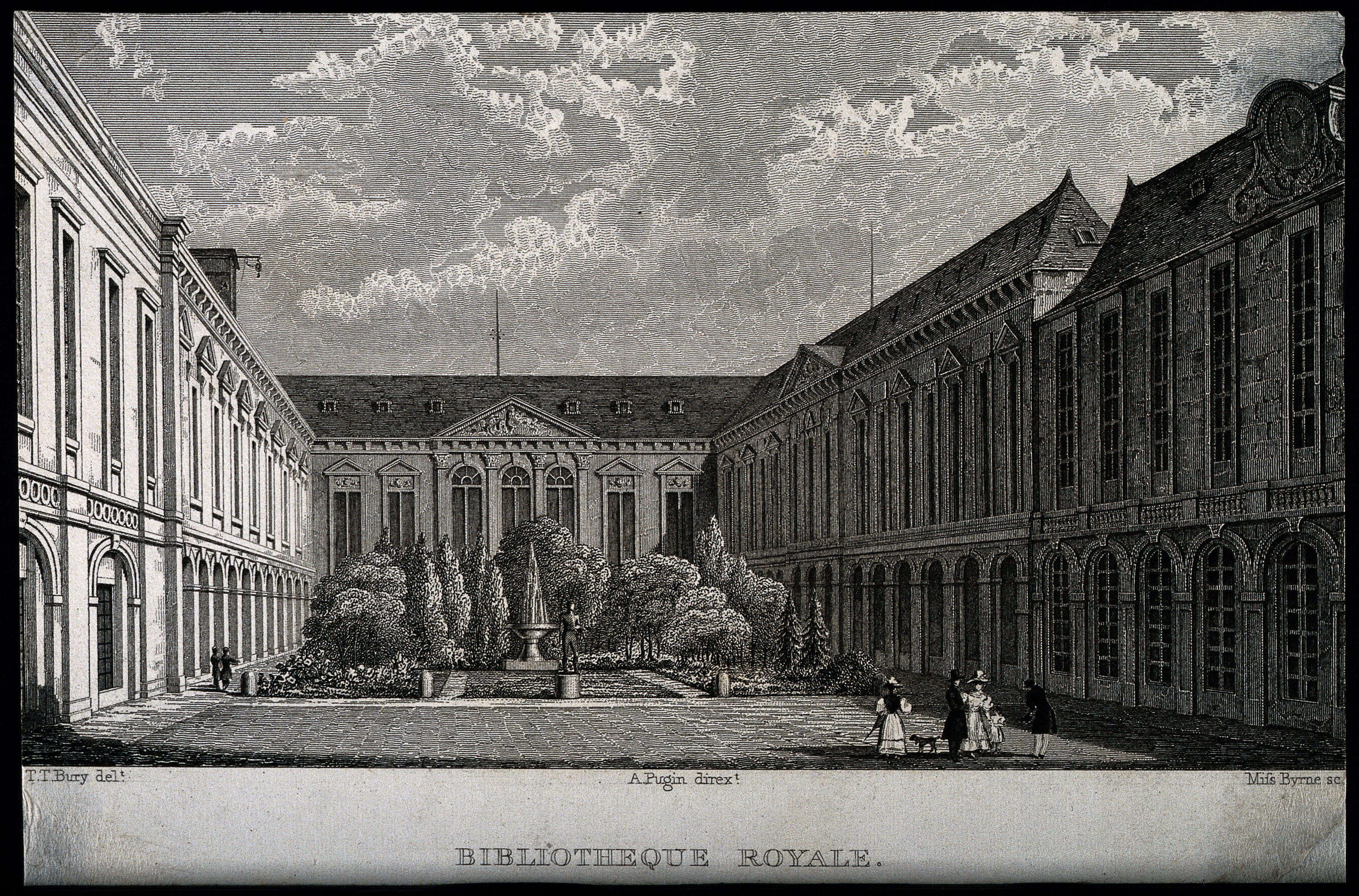 Bibliothéque Royale, Paris: panoramic view of courtyard. Line engraving by Letitia Byrne after T.T. Bury after A.C. Pugin. Iconographic Collections Keywords: Augustus Charles Pugin; Thomas Talbot Bury; Letitia Byrne